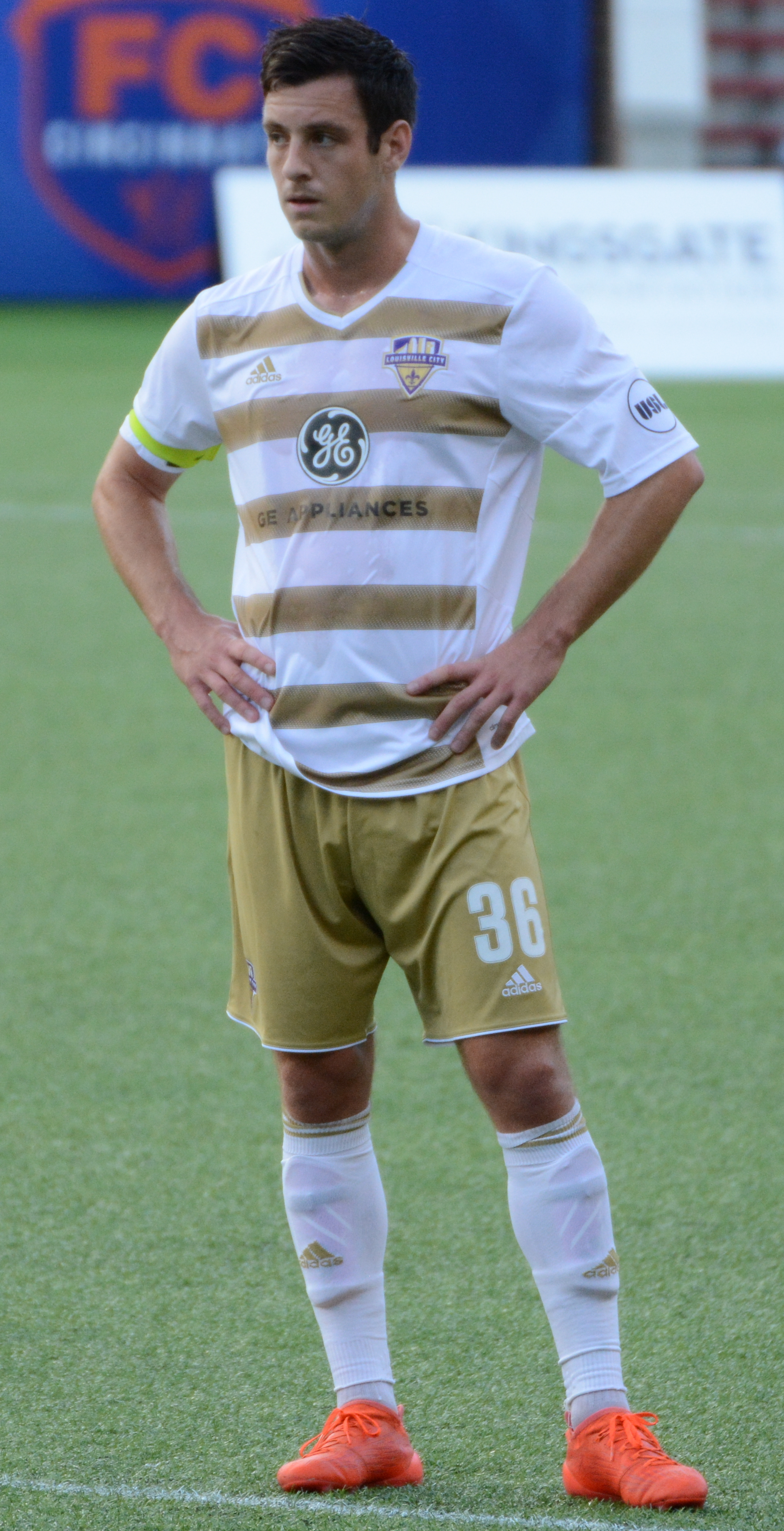 Paolo DelPiccolo Taken at a Lamar Hunt U.S. Open Cup match between FC Cincinnati and Louisville City FC at Nippert Stadium in Cincinnati, Ohio on May 31, 2017.